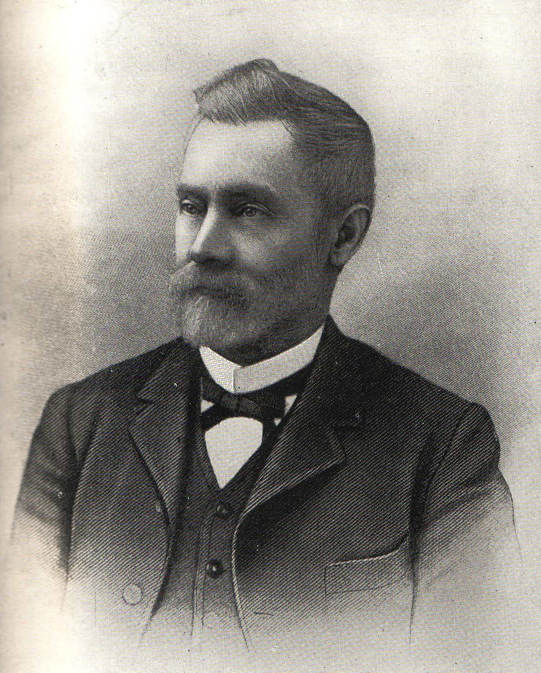 Signature of George Adair from scanned from 1902 book in the public domain